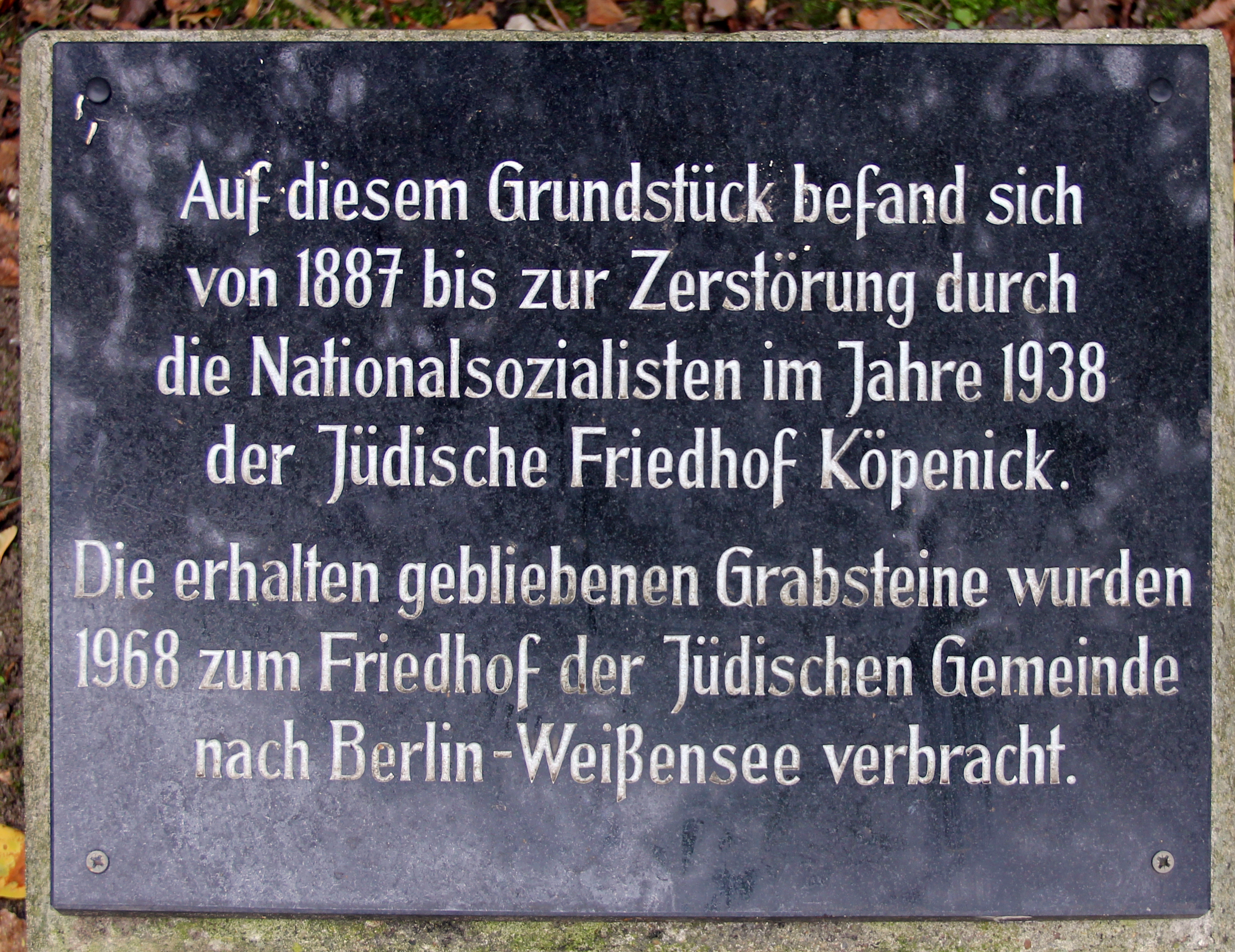 Memorial plaque, Jüdischer Friedhof Köpenick, Gehsener Straße 78, Berlin-Köpenick, Germany